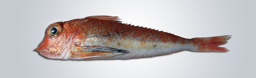 Großschuppen-Knurrhahn